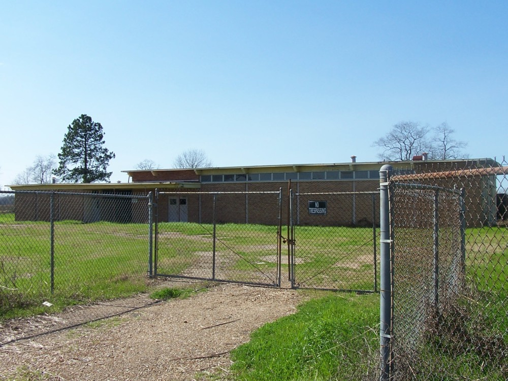 Now defunct Lakeland Elementary on Louisiana Highway 413 near Lakeland.